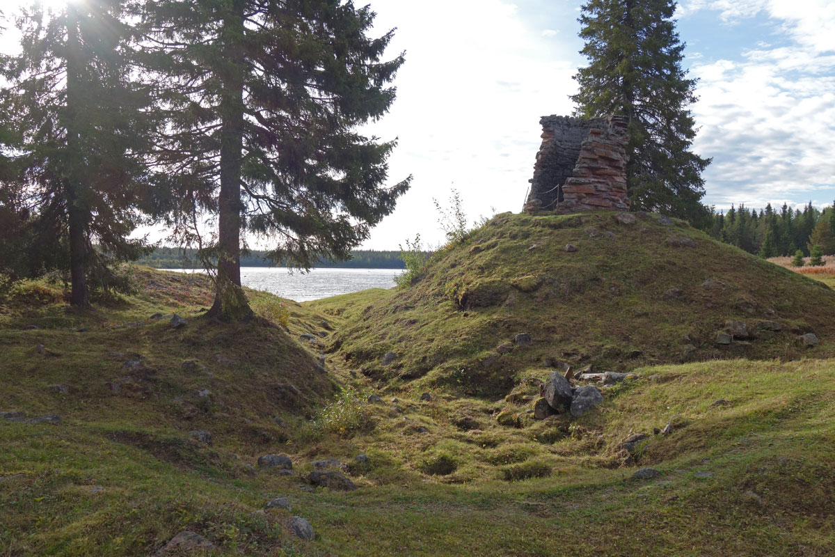 Blast furnace ruin to the right and spoil tips to the left at Palokorva by the river Torneälven in northern Sweden.